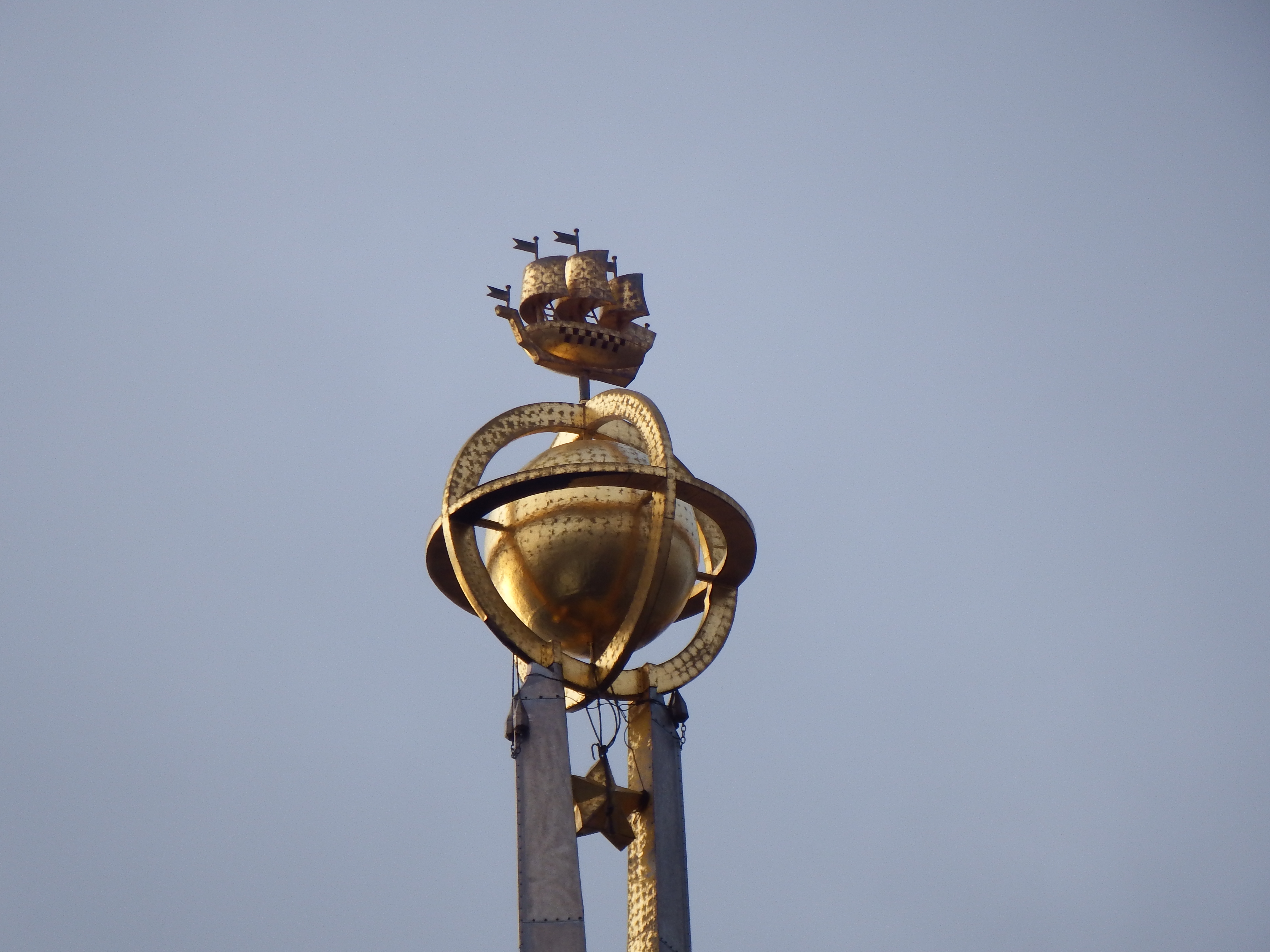 The ship on the top of Sea terminal building in St. Petersburg